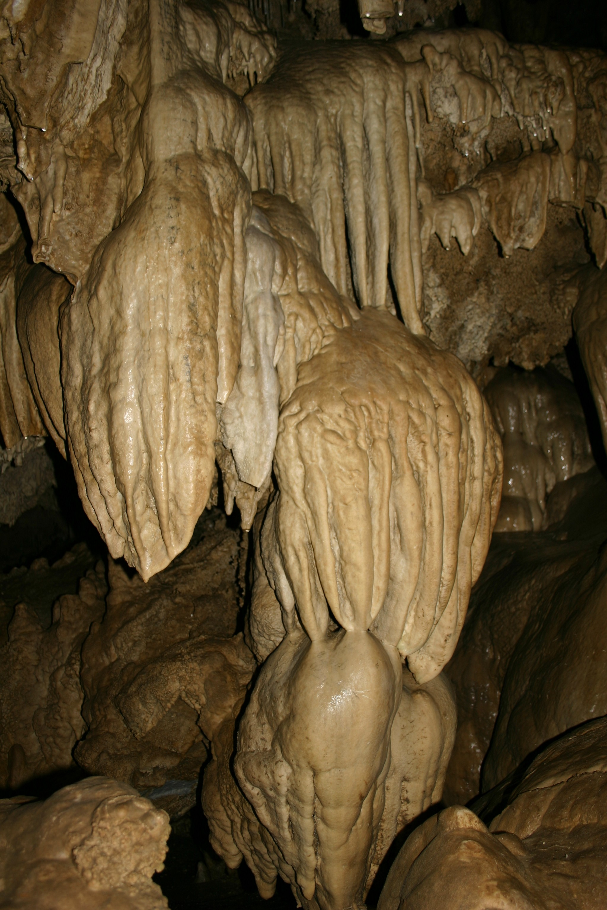 "Banana Grove" flowstone in Oregon Caves National Monument